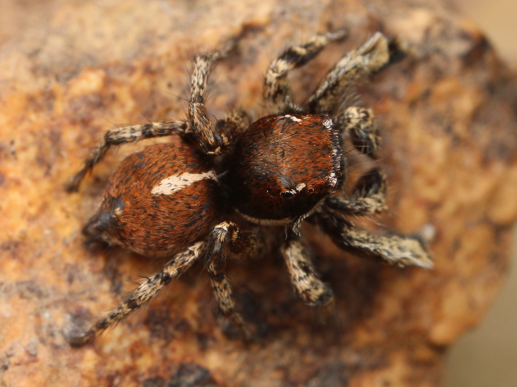 Adult male Habronattus peckhami jumping spider from Point Reyes National Seashore, Marin County, California